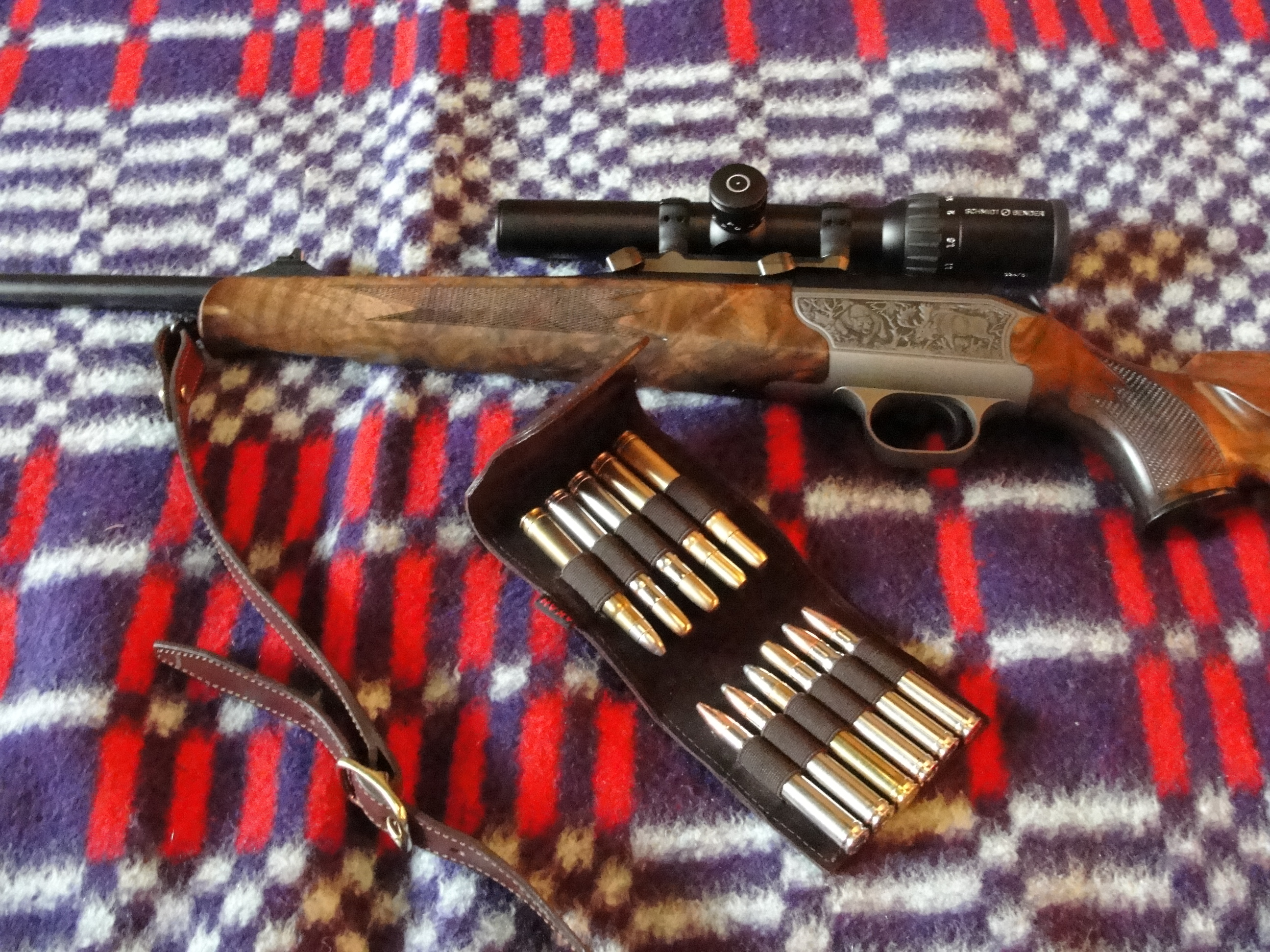 Blazer R-93 Rifle (cal. .375 H&H Mag) and Cartridges; Zambia